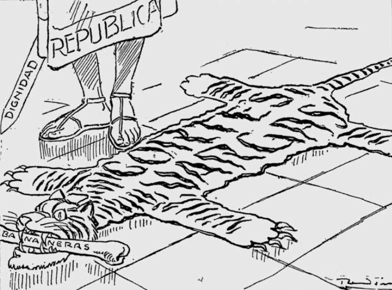 Carlos Cortés Vargas by Ricardo Rendón